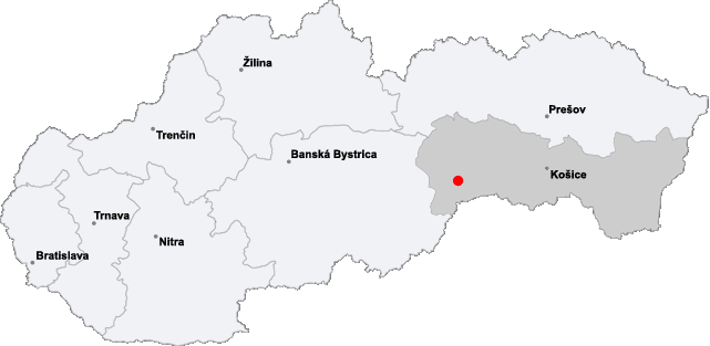 Location of the city of Rožňava in eastern Slovakia.